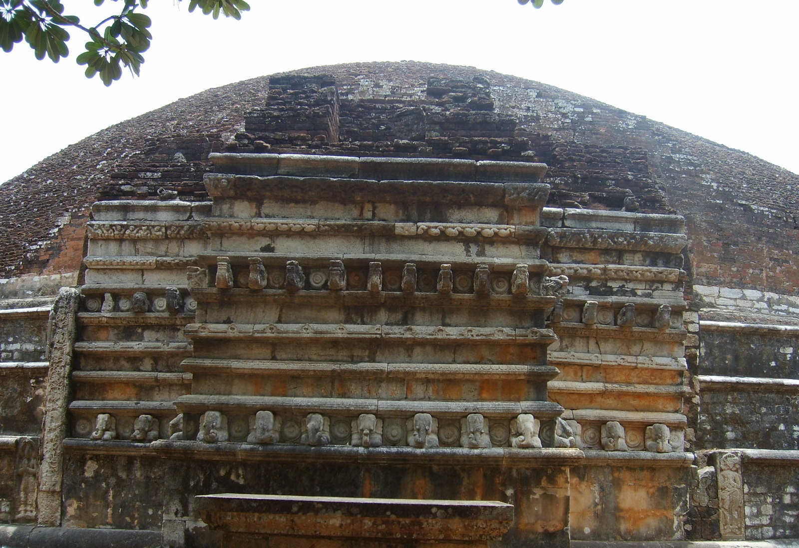 A photograph of Kantaka Chethiya Vahalkada at Mihintale, Sri Lanka, built around 2nd Century BC.